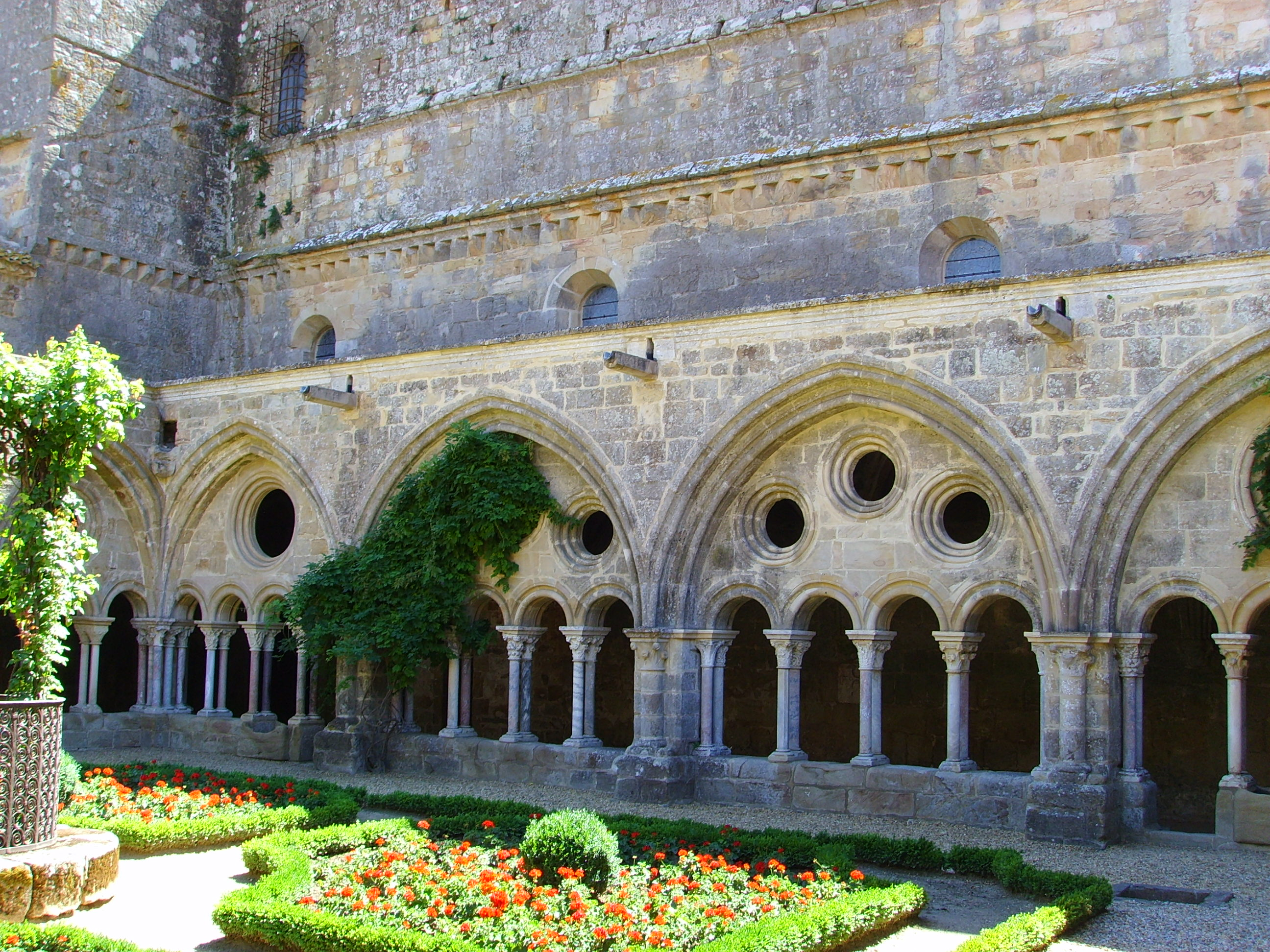 Abbaye Sainte-Marie de Fontfroide (France, southwest of Narbonne), cloister summer 2006 author: Gerbil